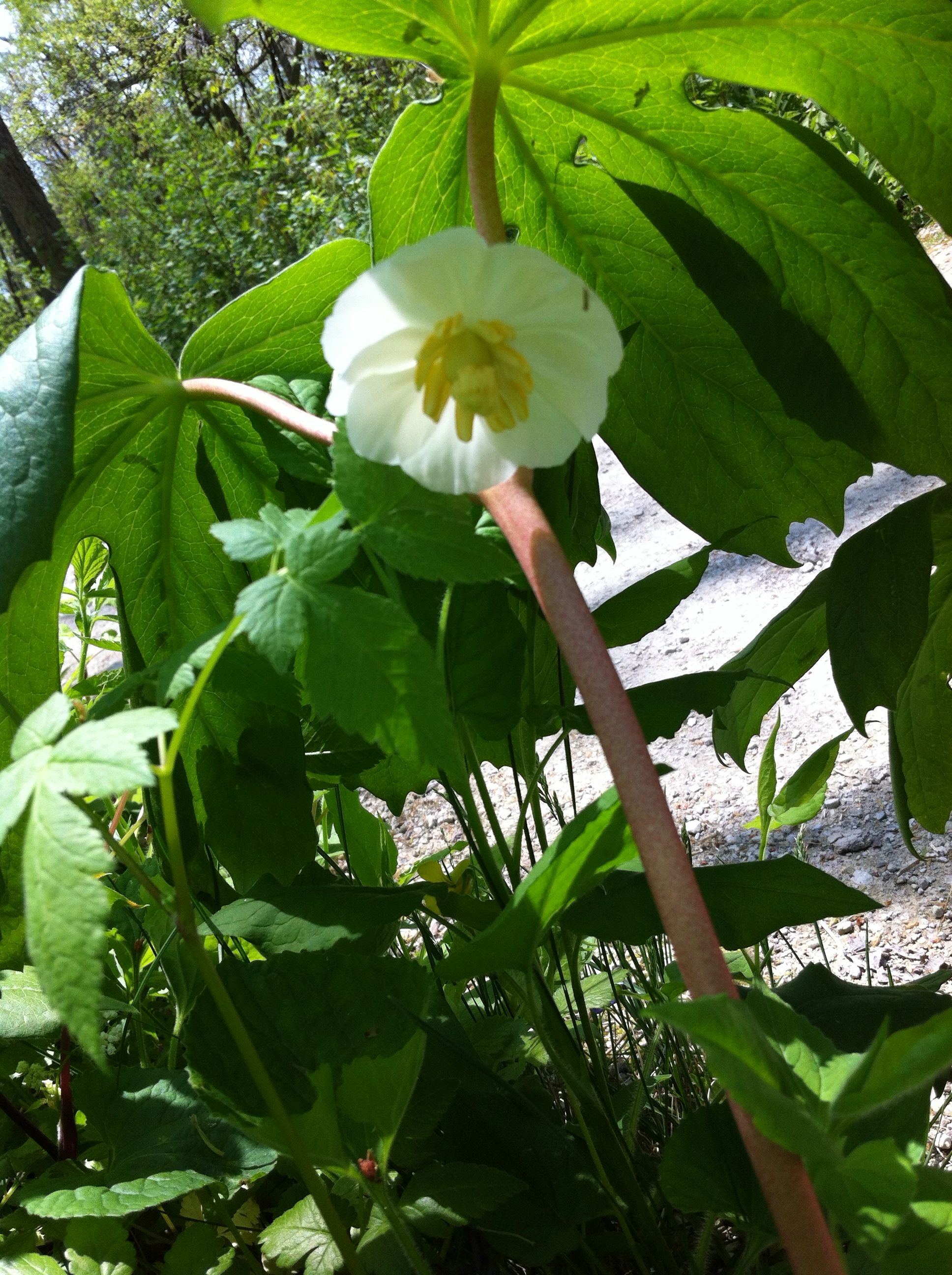 Point Peele Island